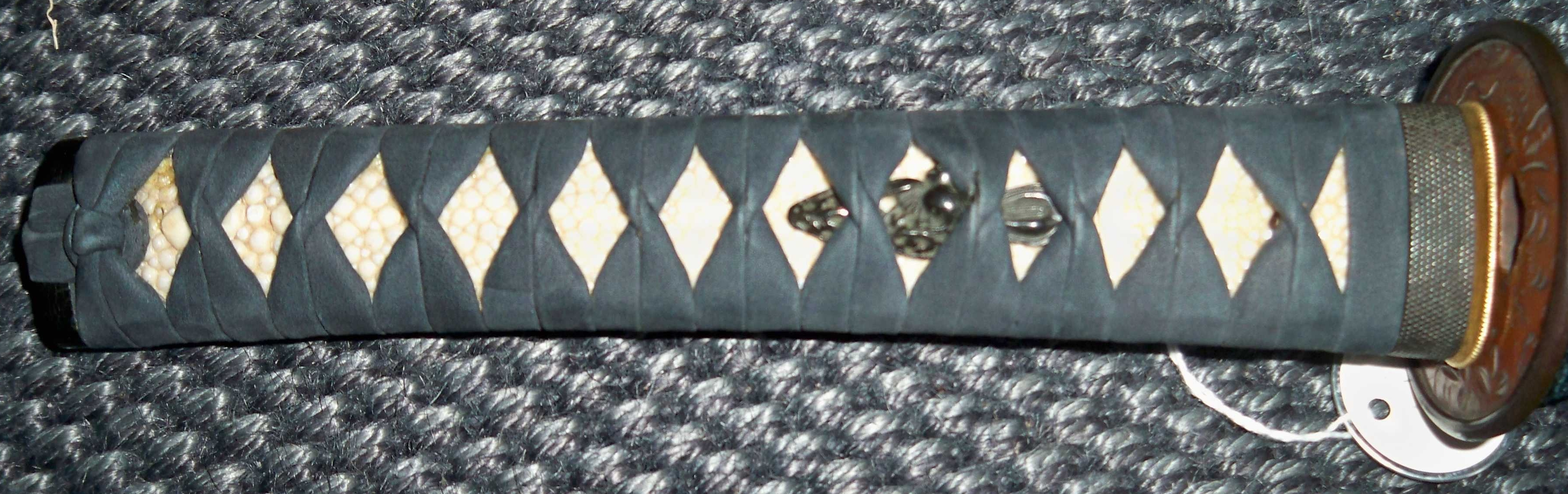 Antique Japanese (samurai) katana tsuka.